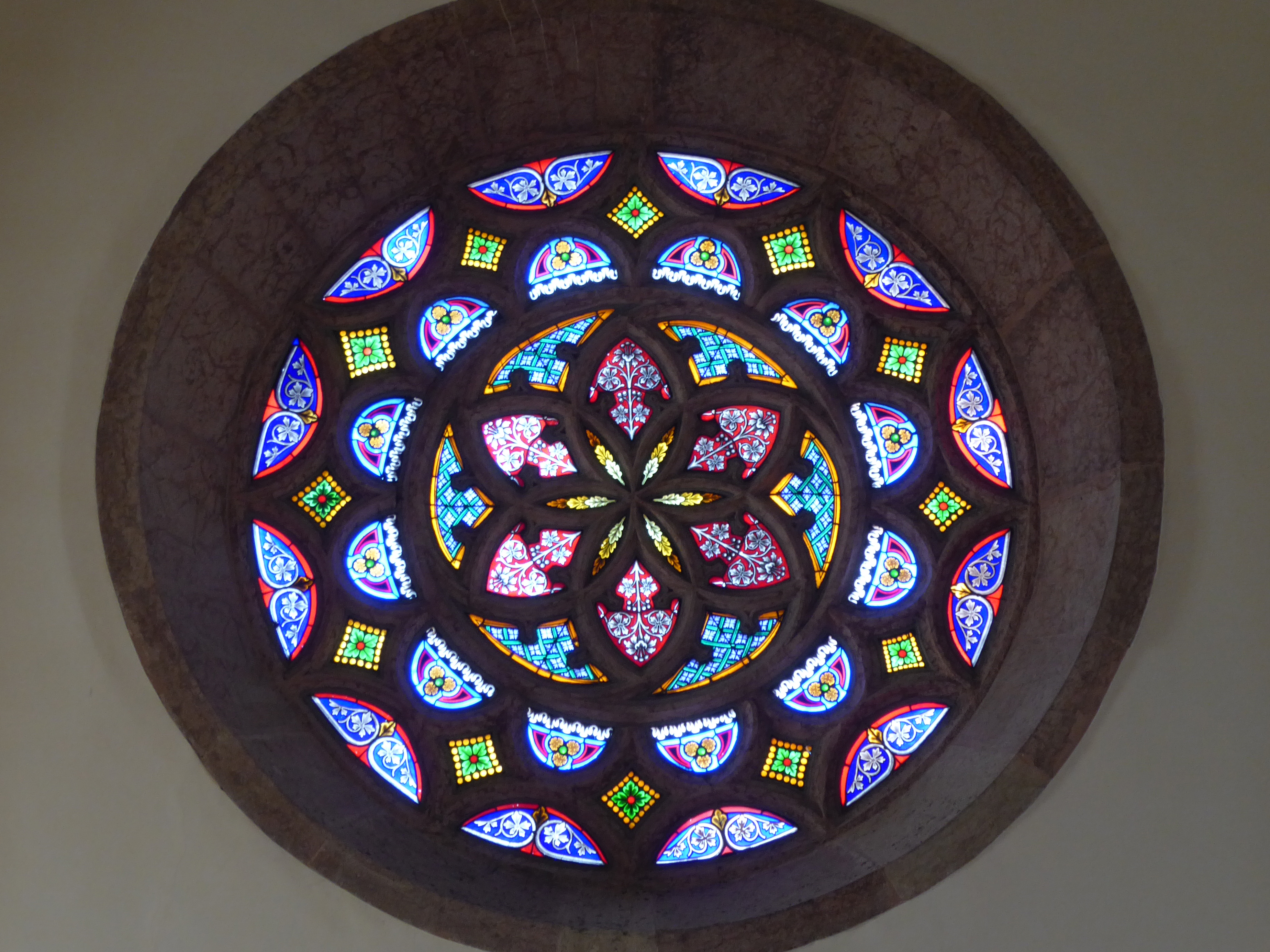 Pergine Valsugana (Trentino, Italy) - Church of the Nativity of Mary, interior - Rose window